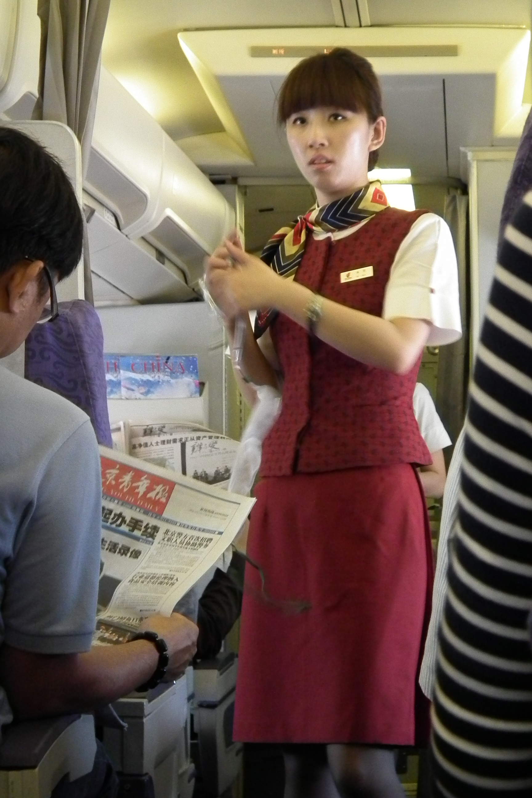 Air China B737